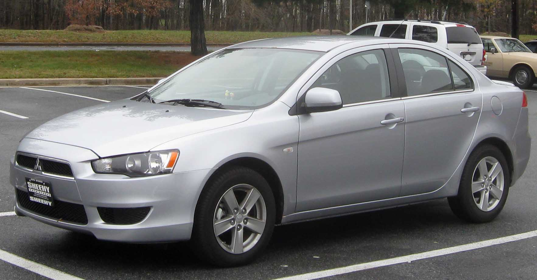 2008-2009 Mitsubishi Lancer photographed in Fort Washington, Maryland, USA.